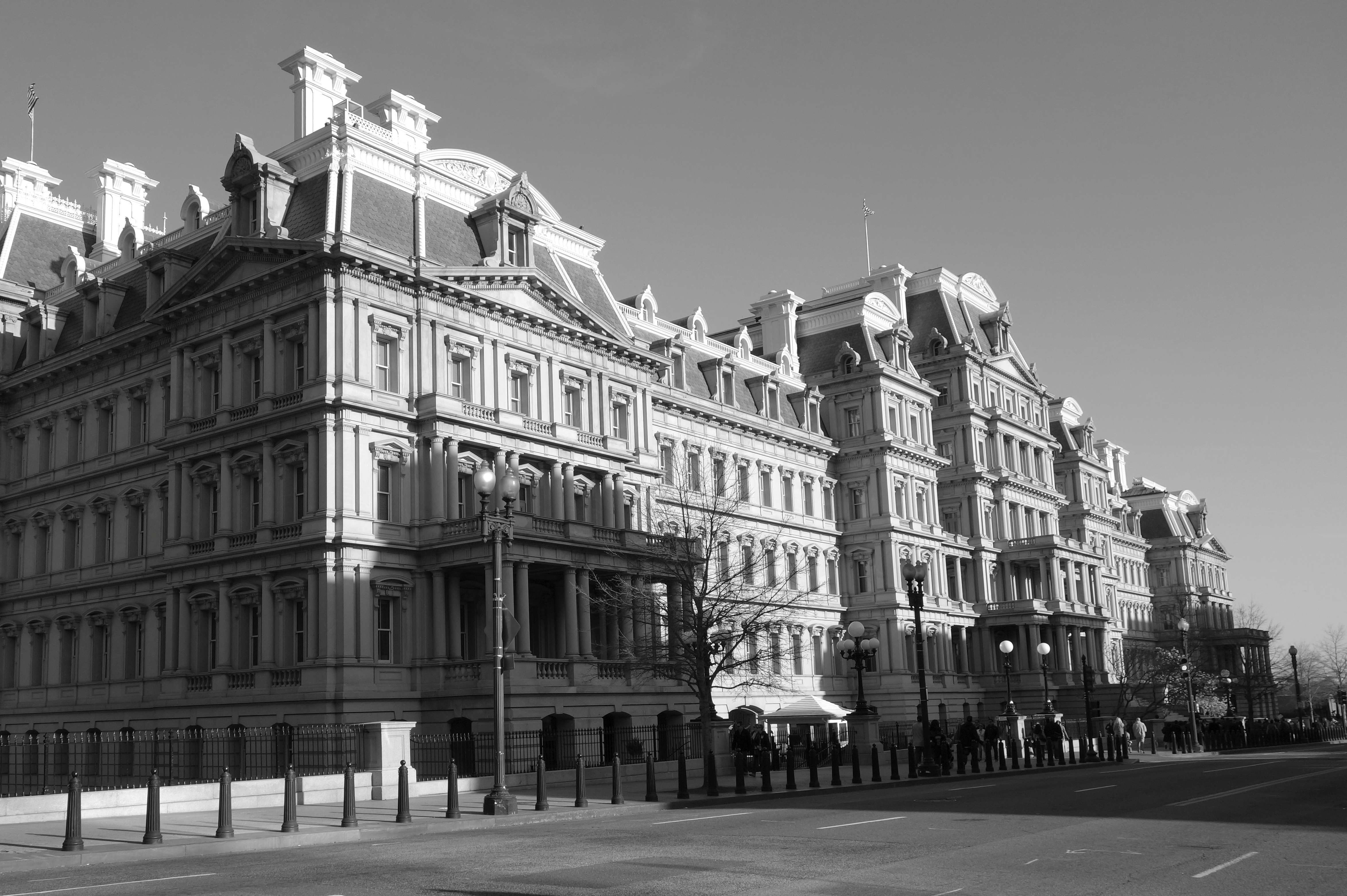 Executive Office Building, Pennsylvania Ave. and 17th St., NW Monumental Core